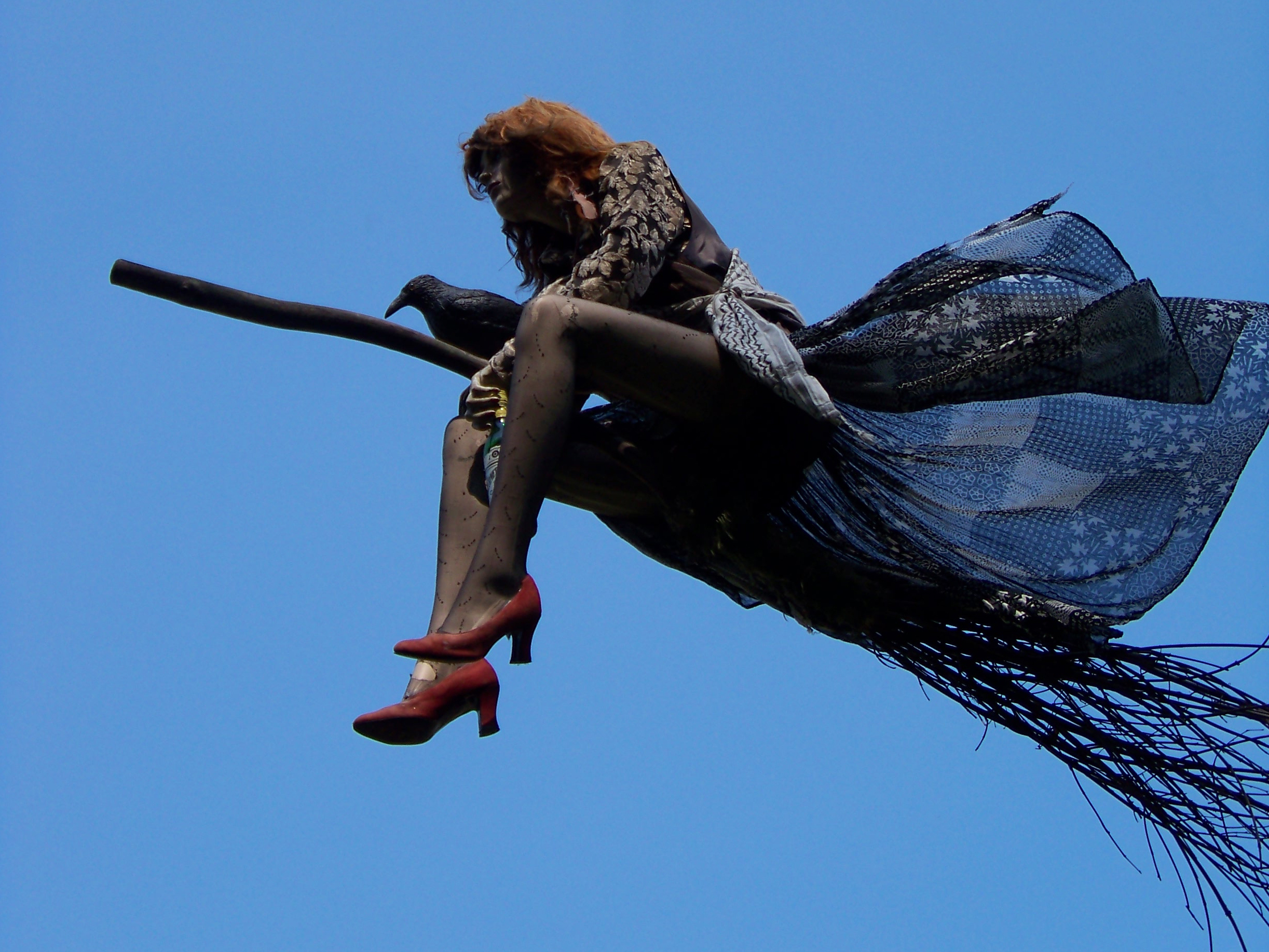 Hradištko-Pikovice, Central Bohemian Region, the Czech Republic. A figurine of a witch.